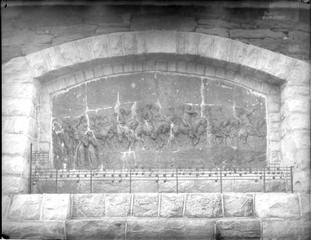 Memorial plaque to Norwegian fiddler and composer Ola Mosafinn in Voss, Norway. The plaque, titled Ridande Vossabrudlaup, was created by Norwegian sculptor Nils Bergslien.